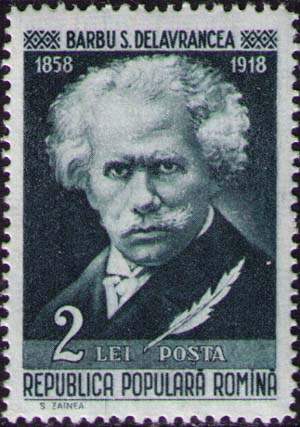 1958 Romanian Post, 2 lei, green, representing Barbu Ştefănescu Delavrancea (1858- 1918); Series:Romanian Writers; Design: S. Zainea Michel stamp catalogue (East-Europe part 4) number: 1716